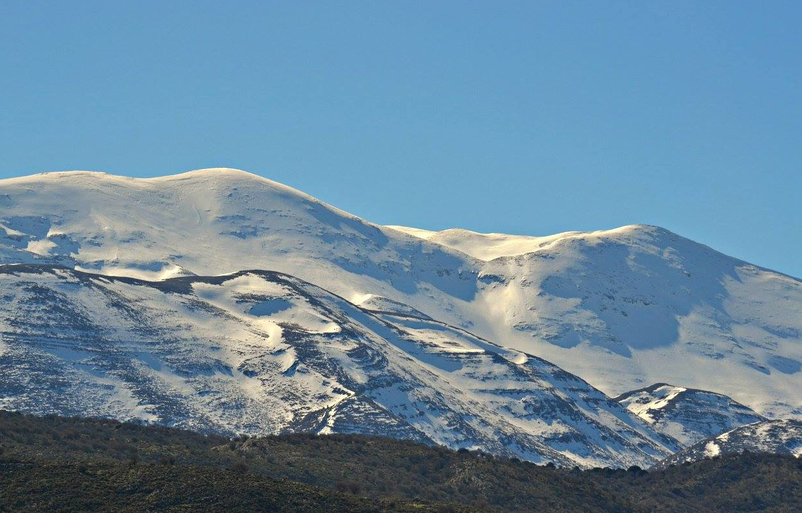 This is a photography of Natura 2000 protected area with ID GR4330005